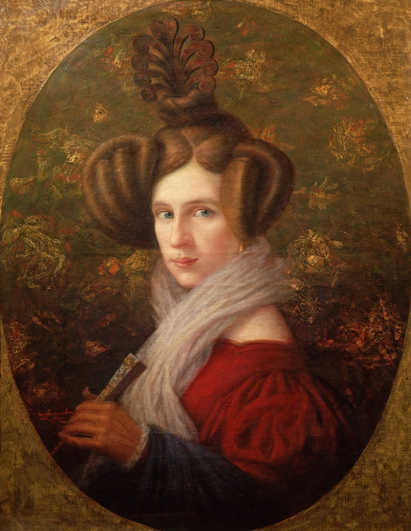 Painting of Giuseppe Verdi's wife, Margherita Barezzi (d. 1840)